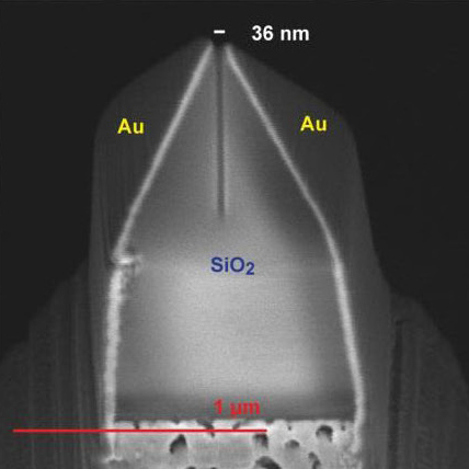 SEM images of a typical Campanile probe